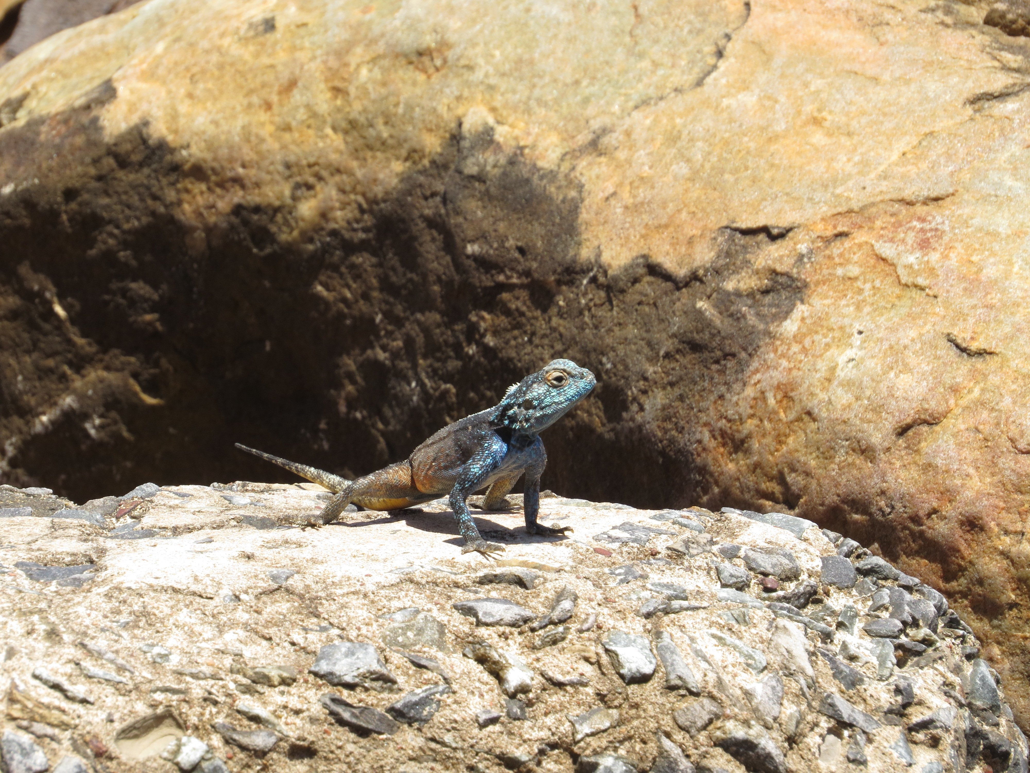 Agama atra male, showing eye, nostril, tympanum